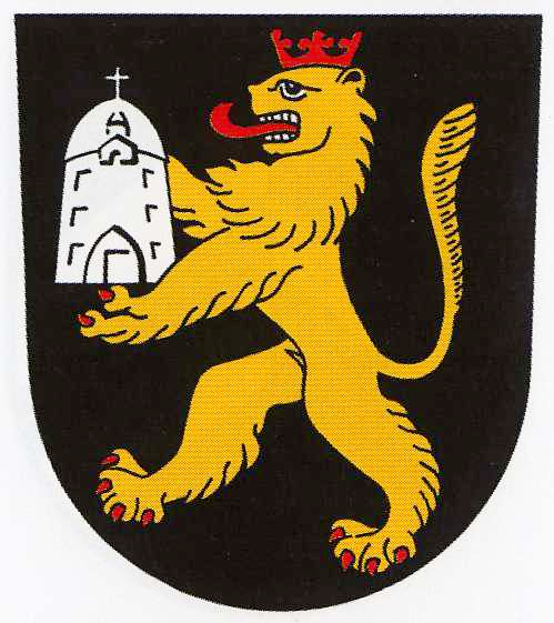 Coat of Arms of Veltenhof, Part of Braunschweig